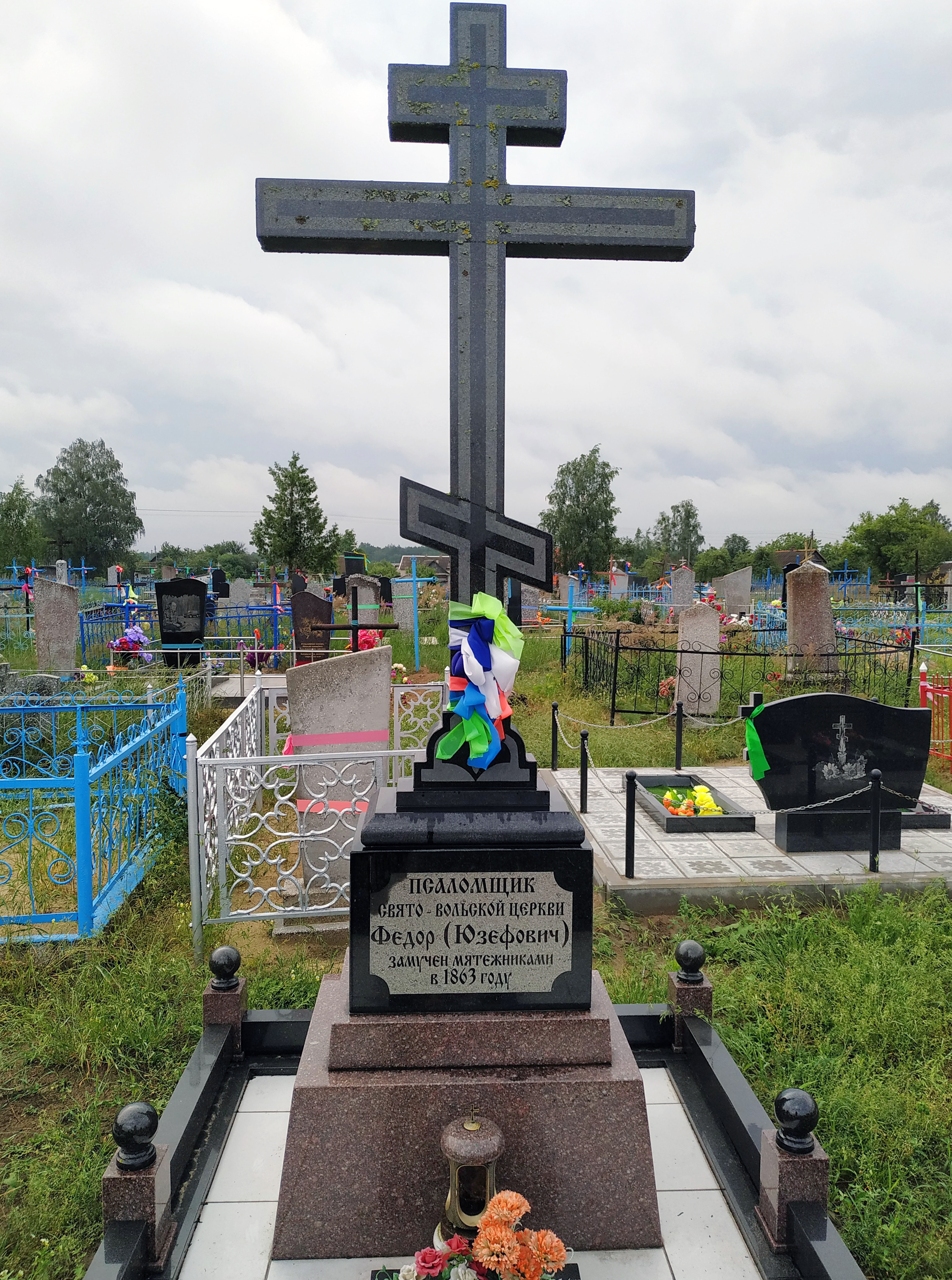 Fiodar Juzefovič grave